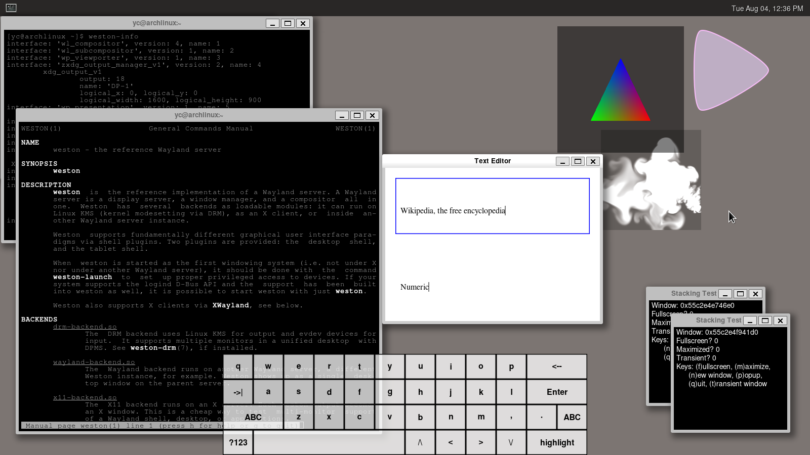 Running on latest Archlinux, running some demos shipped with the Weston package.